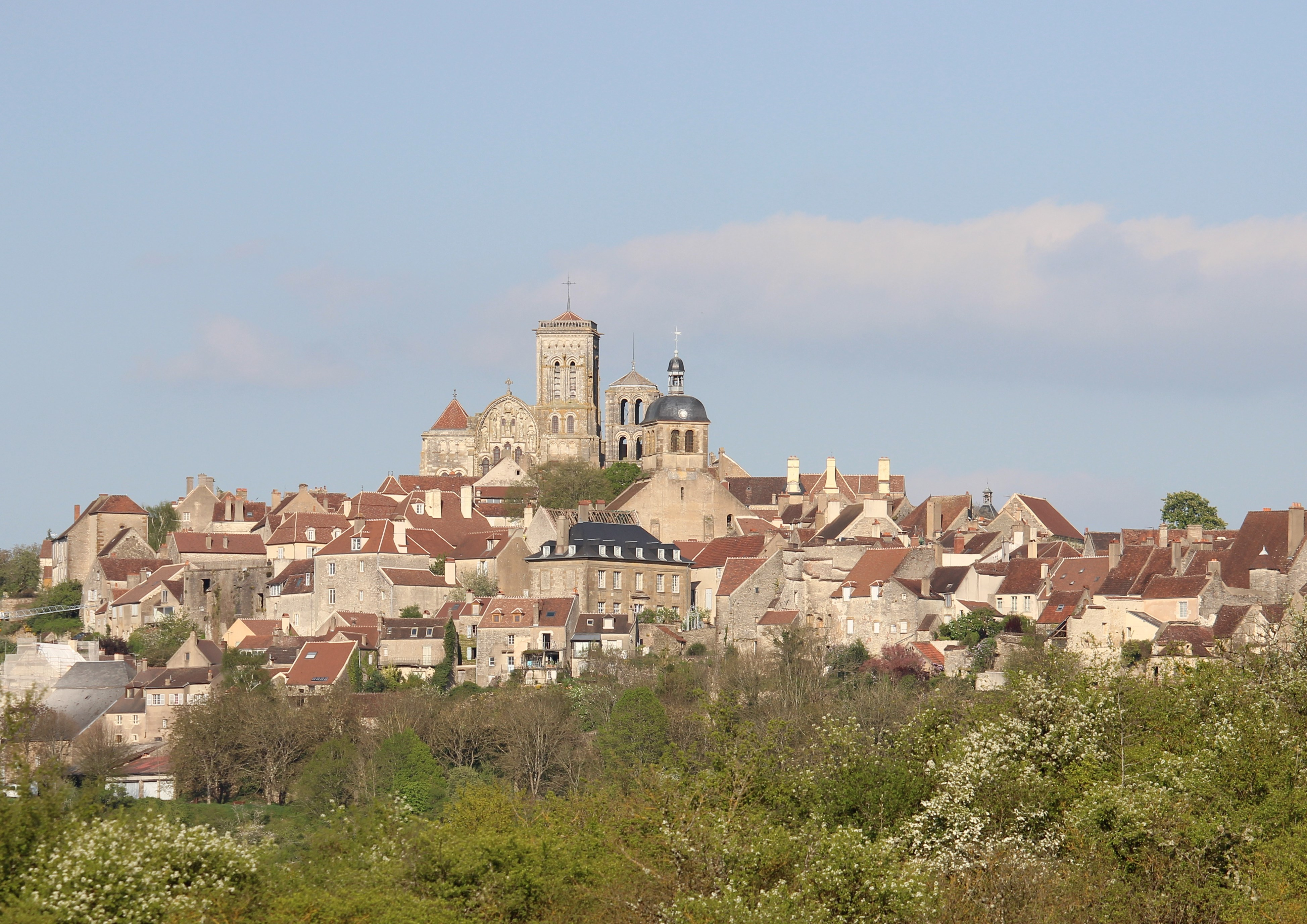 Vezelay